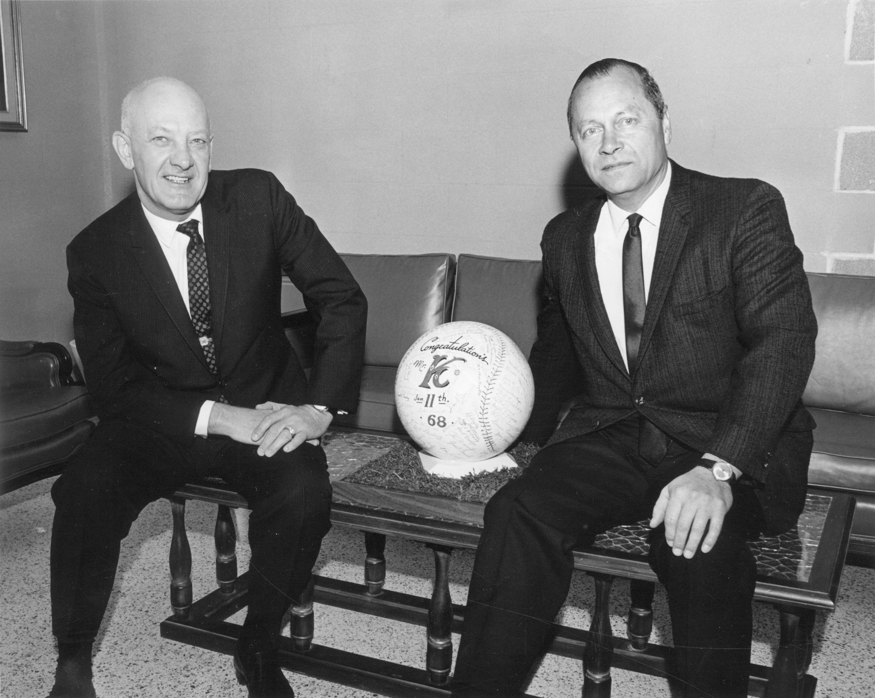 Photographer/Studio: Unknown Description: Ewing Kauffman and Cedric Tallis, Kansas City Royals owners. Coverage: United States – Missouri – Jackson – Kansas CIty Date: June 11, 1968 Rights: Copyright is in the public domain. Credit: Courtesy of Missouri State Archives Image Number: N/a Institution: Missouri State Archives